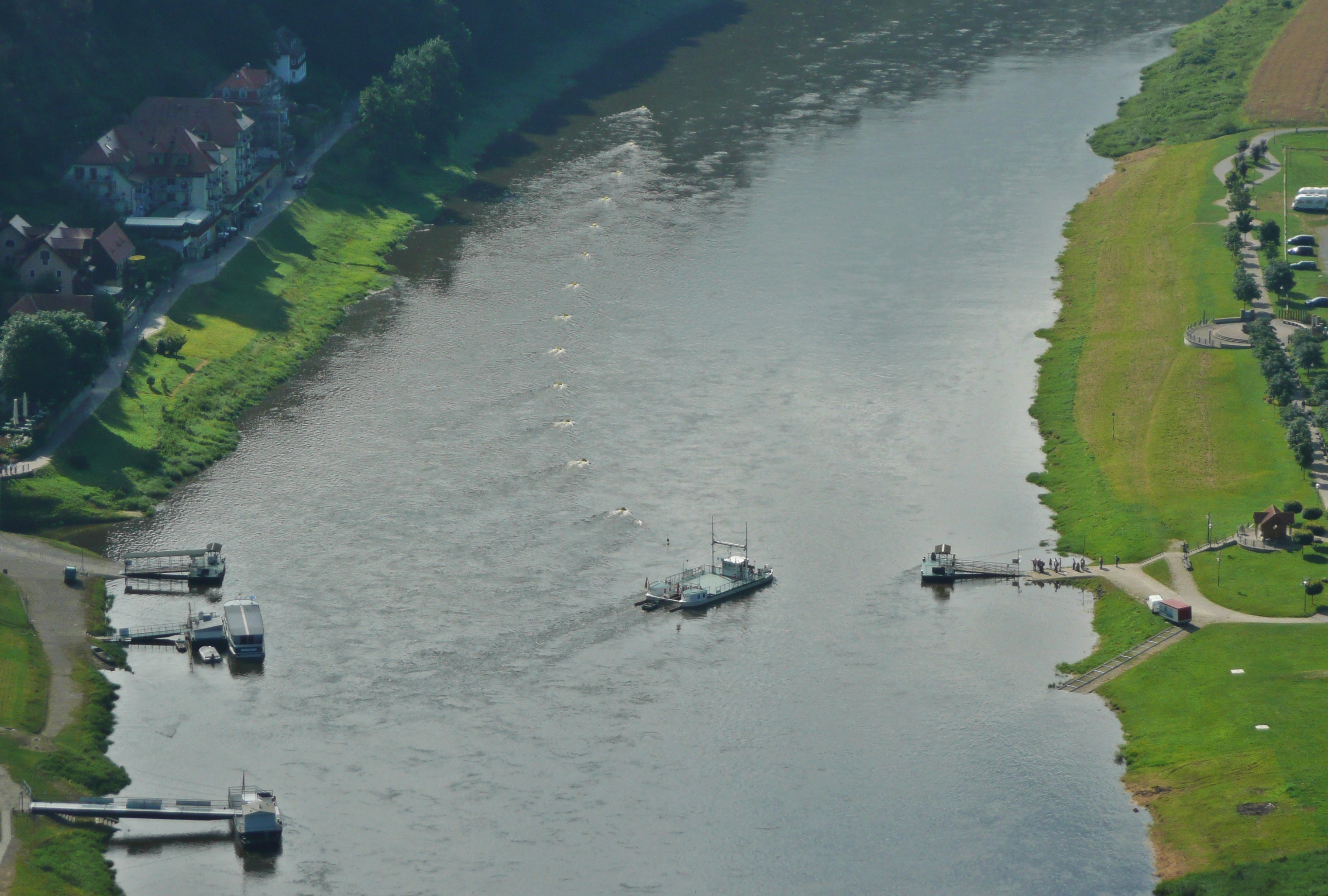 This image shows the ferry over the Elbe in Rathen.